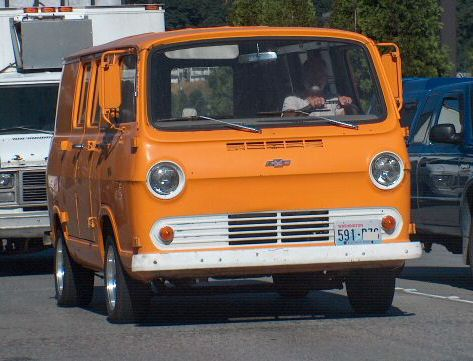 1st version of Chevy van with flat front.